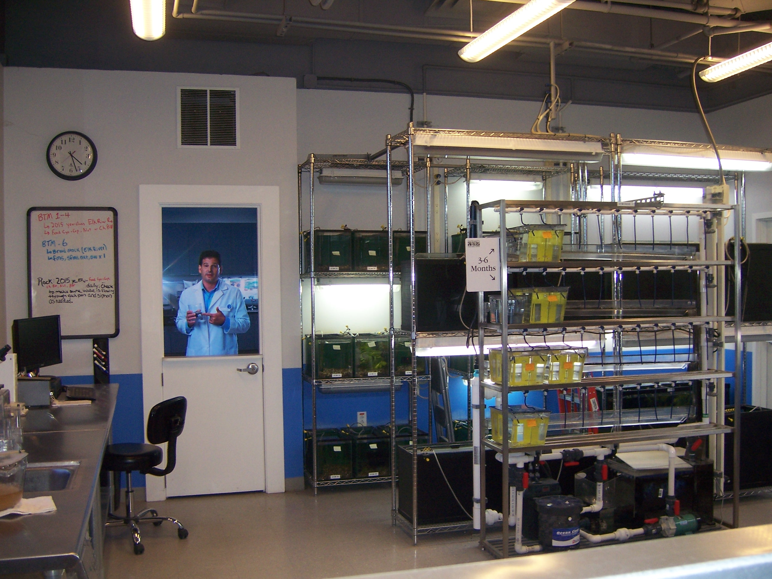 Barrens Top-Minnow exhibit, Tennessee Aquarium, Chattanooga, TN